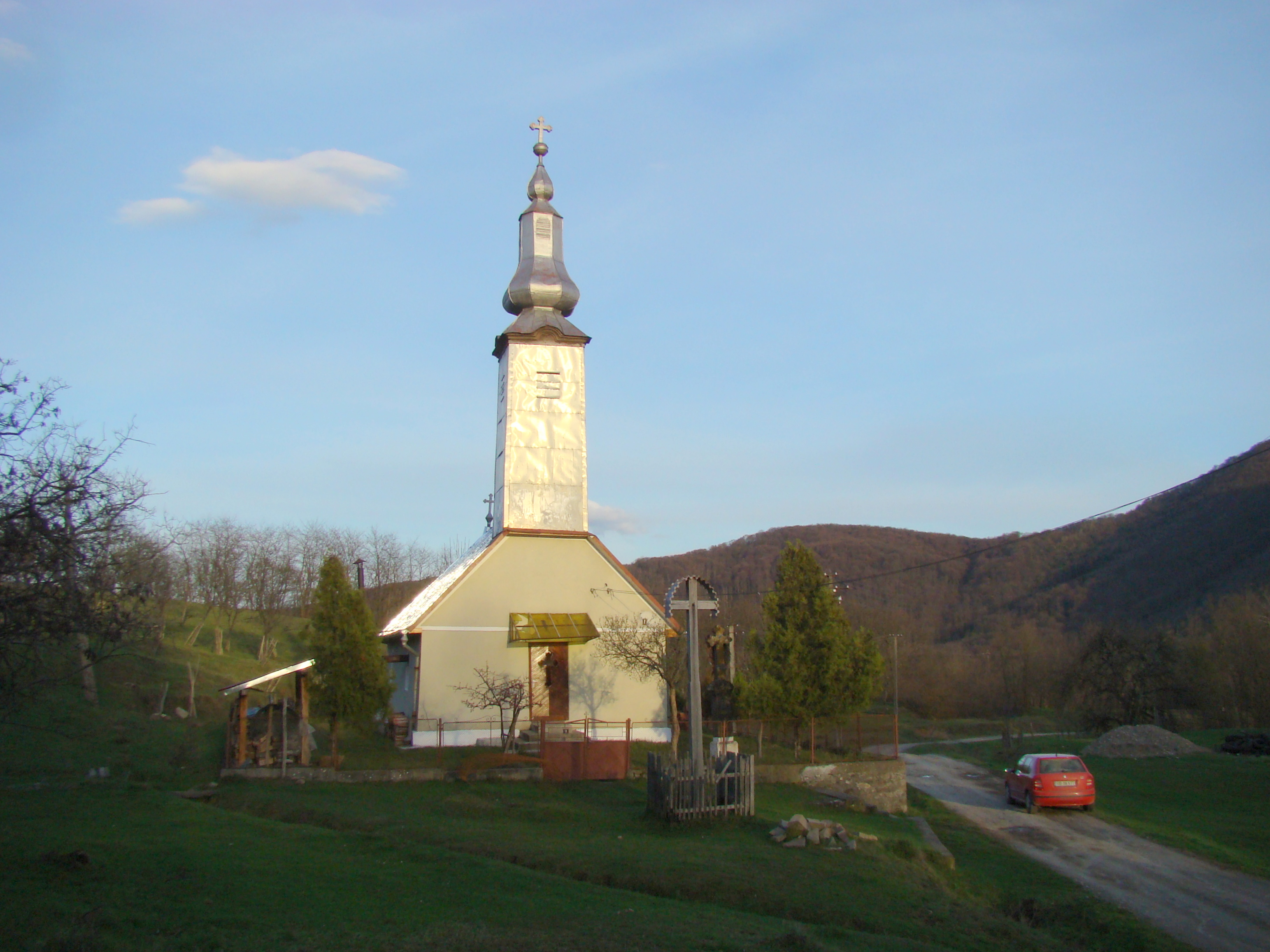 Wooden church in Valea Mare (Gurahonț), Arad county, Romania